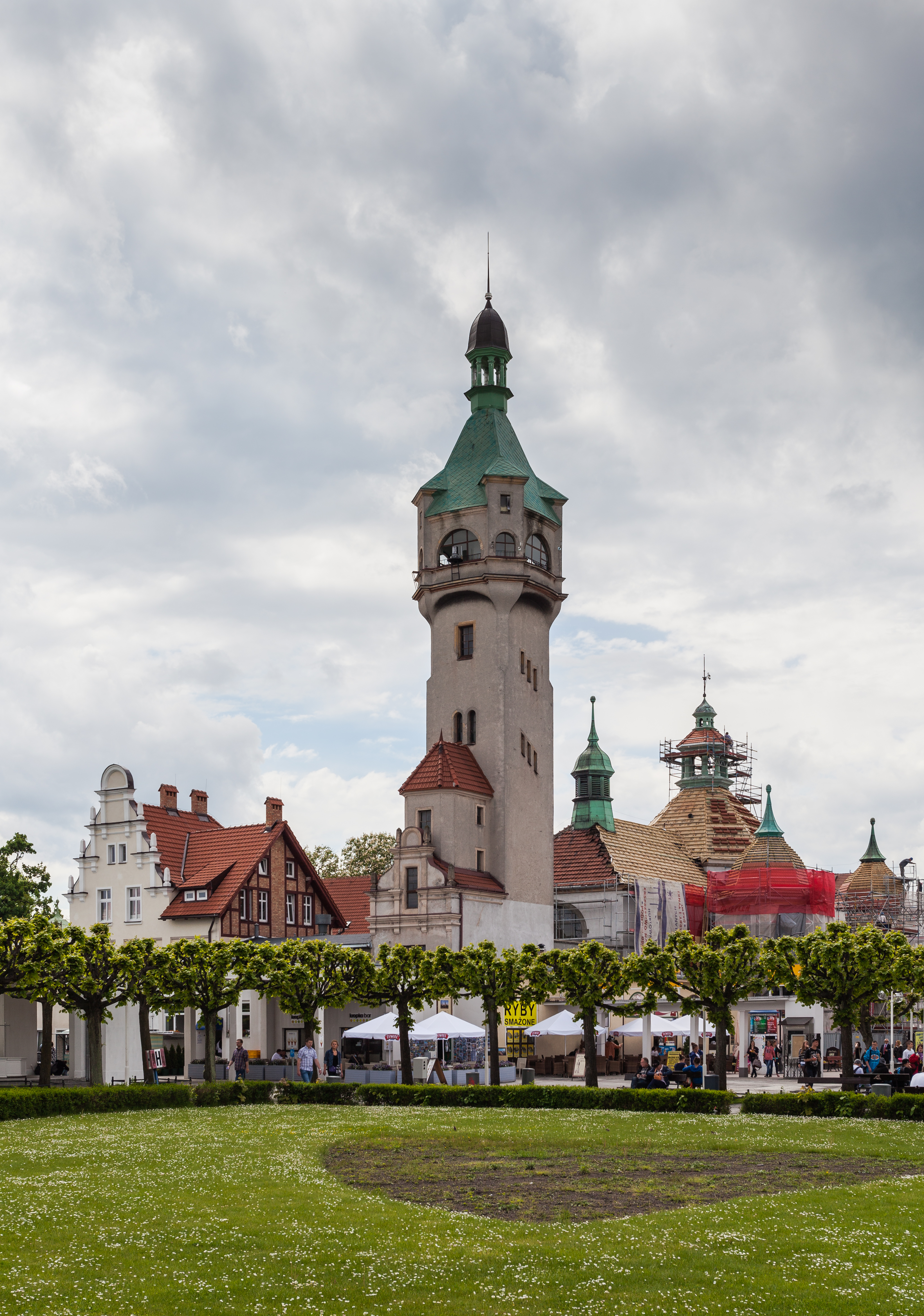 Lighthouse, Zdrojowy square, Sopot, Poland